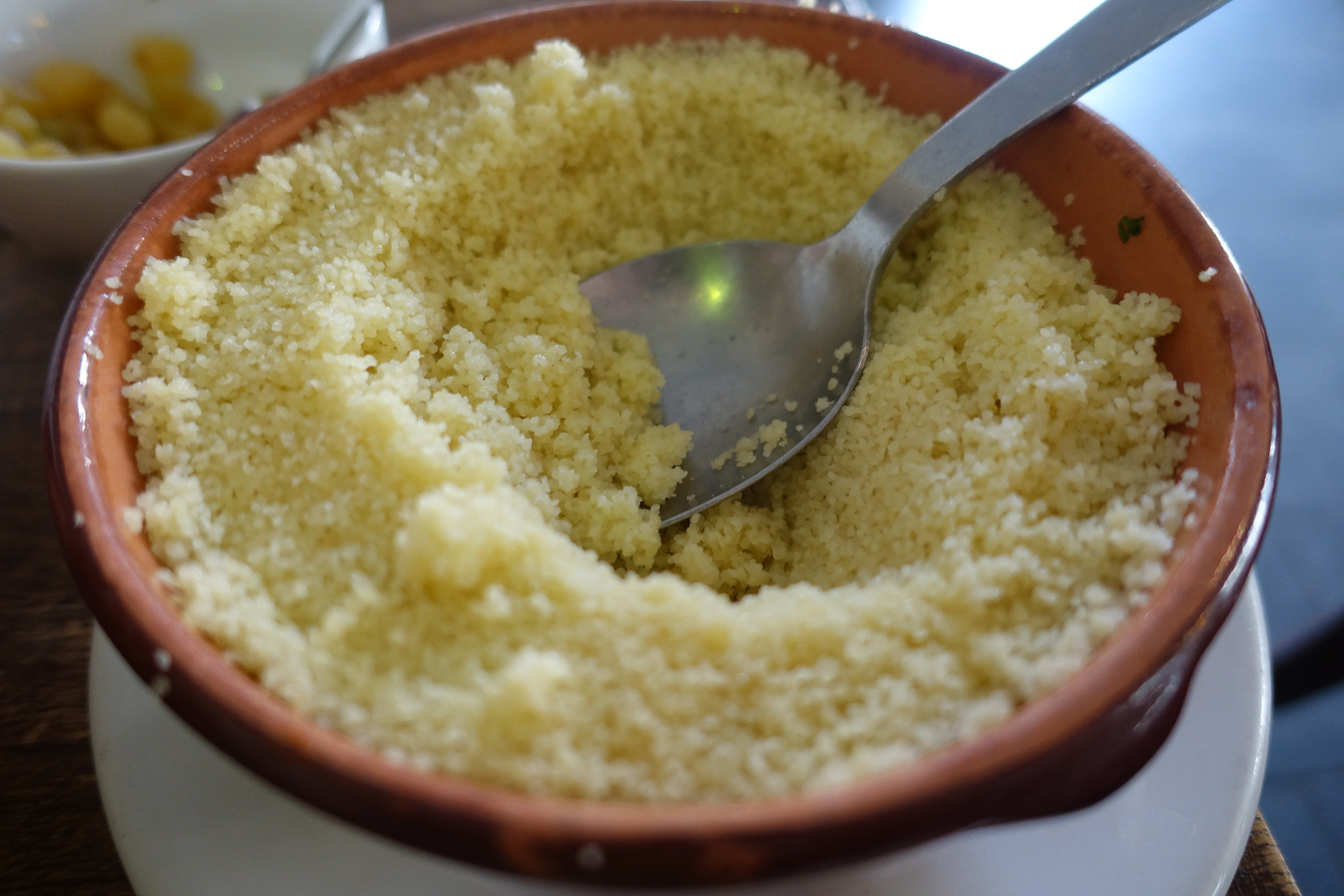 Semolina @ Couscous with merguez @ Icosium @ Paris